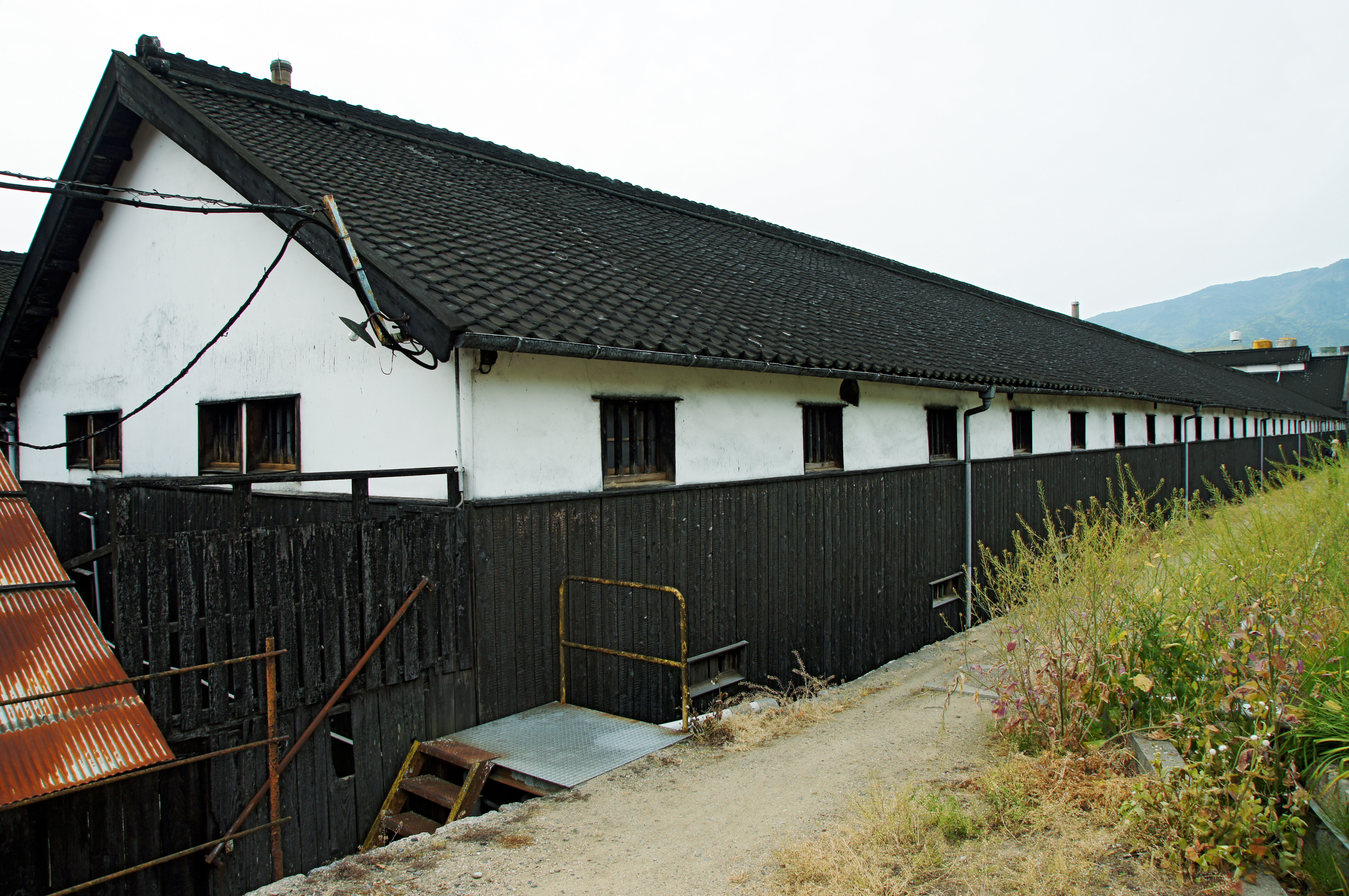 Hishio-no-sato of Shodo Island in Shodoshima, Kagawa prefecture, Japan